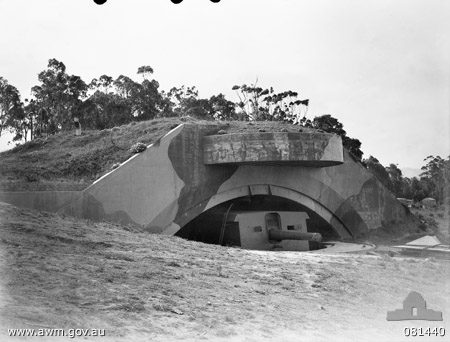 AWM caption : "KEMBLA FORTRESS AREA, N.S.W., AUSTRALIA. 1944-10-11. NO.2 GUN AND EMPLACEMENT, DRUMMOND BATTERY, KEMBLA COAST ARTILLERY." Comment : this shows a BL 9.2 inch Mk X gun in position. See File:Positioin 2 drummond battery.jpg for the site as it was in 2008.